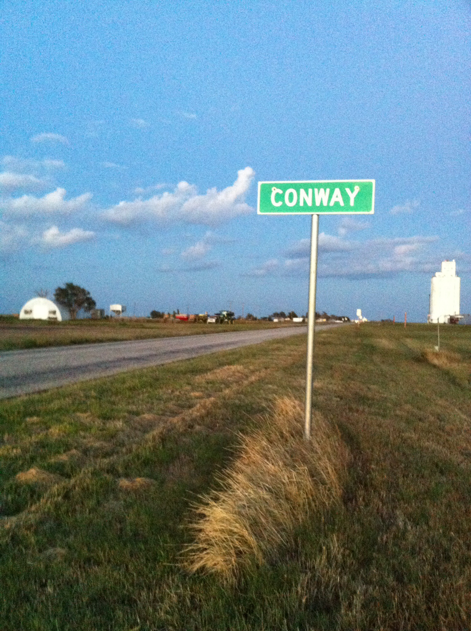 Route 66, Texas 207 to I-40, Texas Farm Rd. 2161, from I-40 to TX 207 Conway